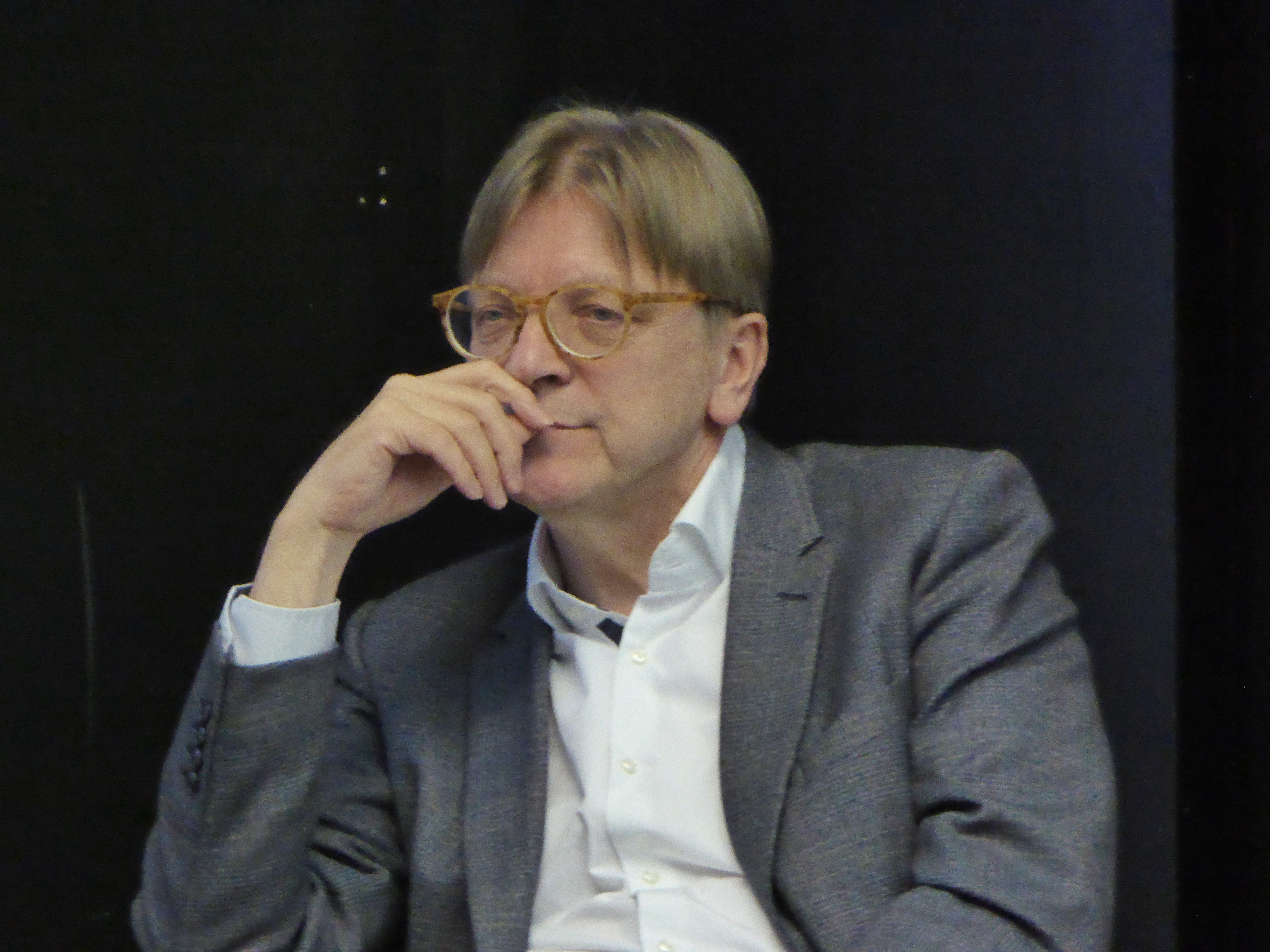 Rome, 2017 Forum on the Future of Europe, speakers.